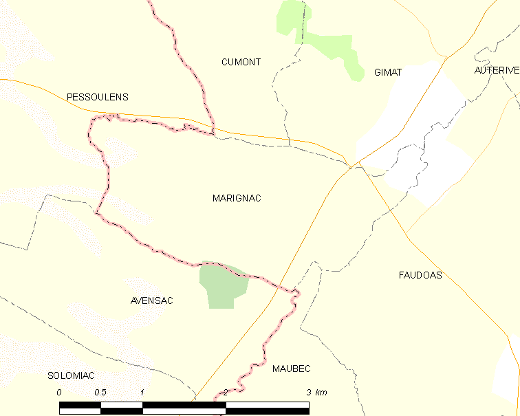 Map of French municipality Marignac